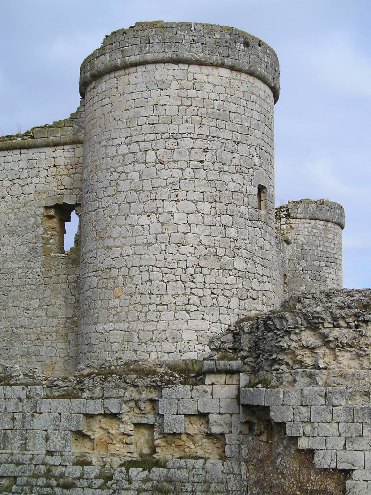 Pioz Castle